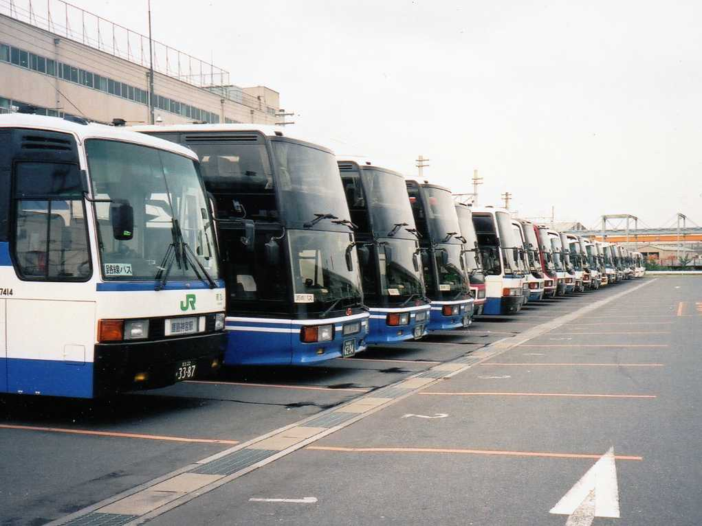 JR Bus Kanto Tokyo Branch with permission.